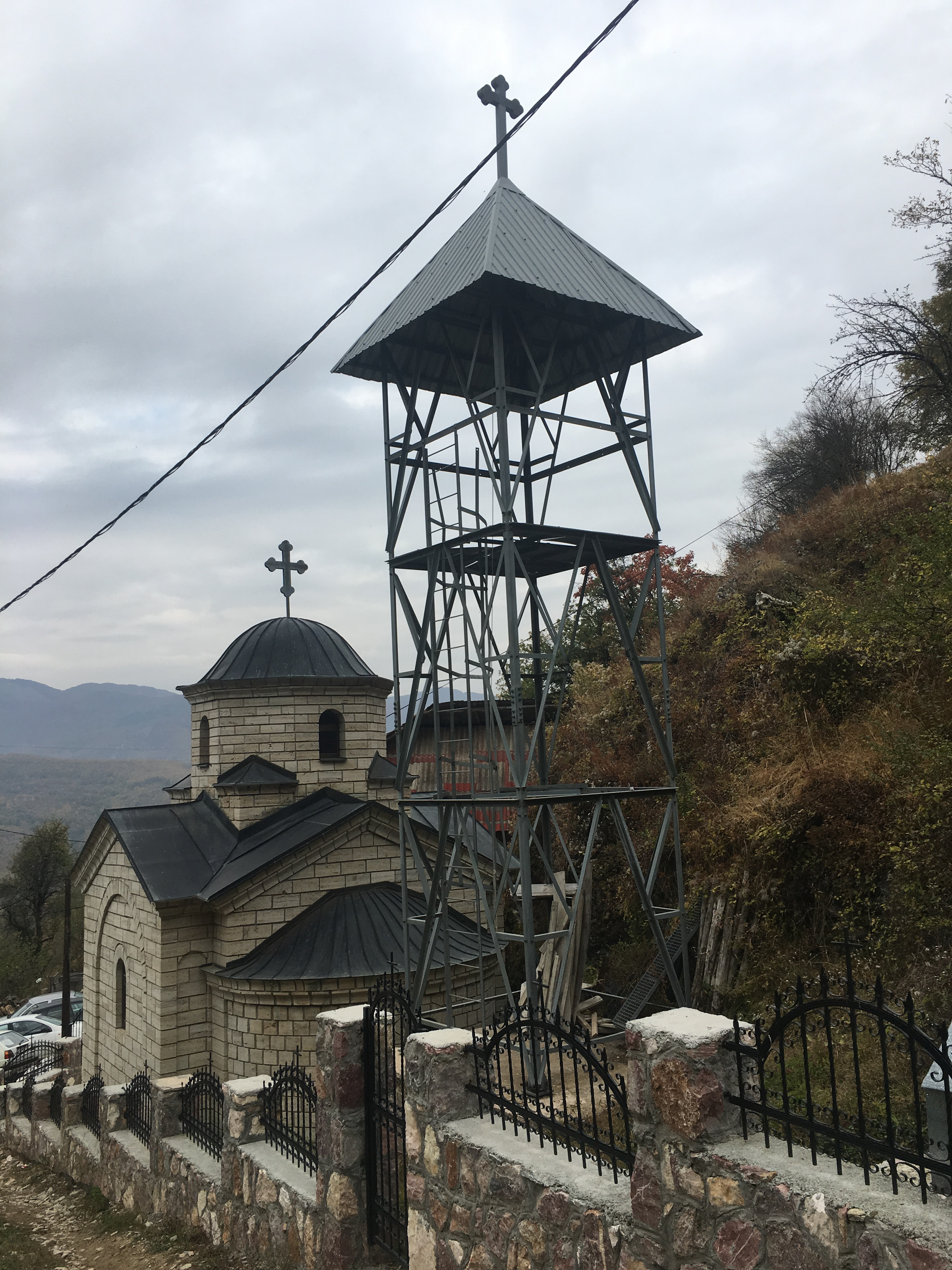 Wikiexpedition to Kopačka